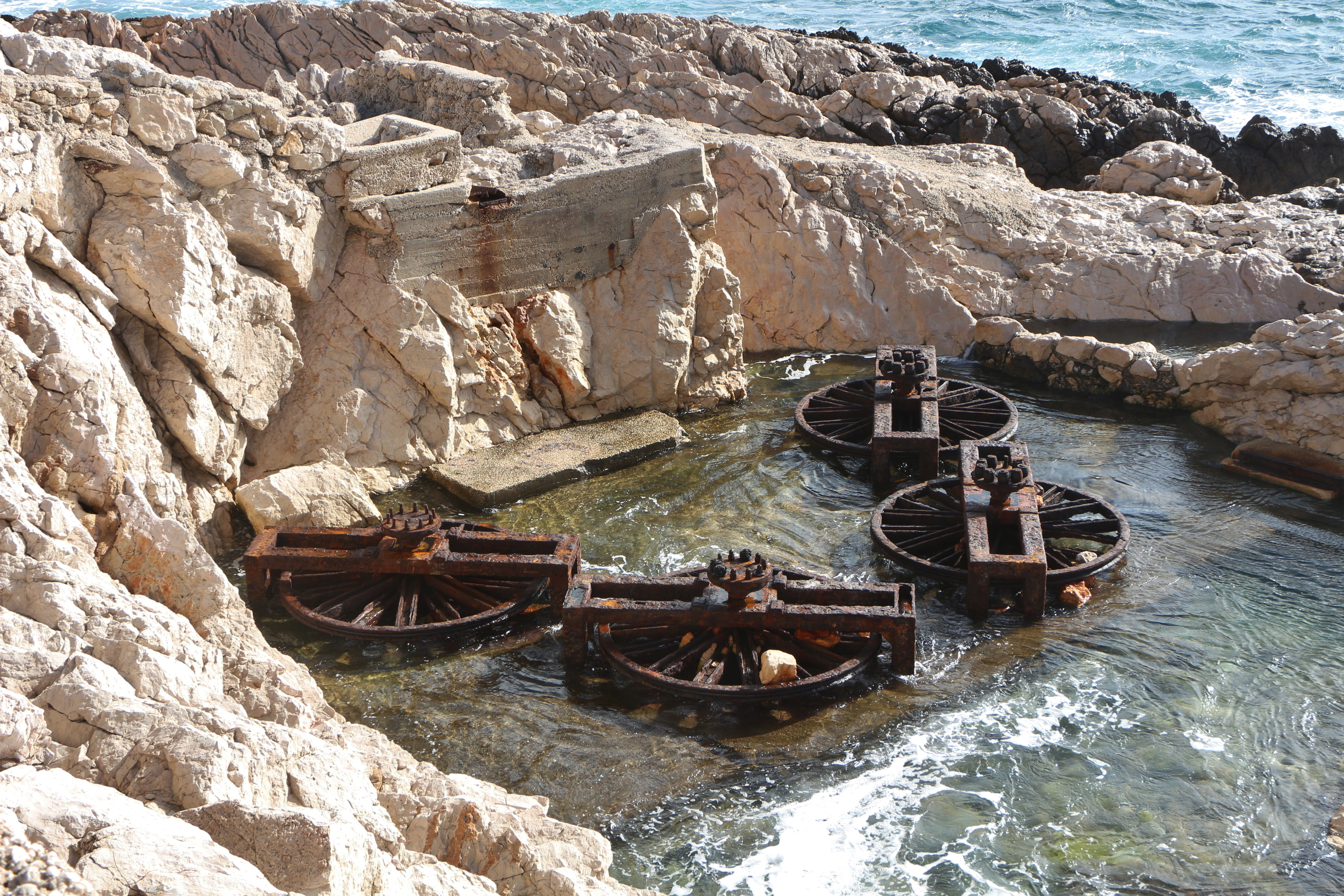 Base and rope pulley of the diving cableway Téléscaphe, calanque de Callelongue, Les Goudes, Marseille, France. (1960's; photo: 2008)